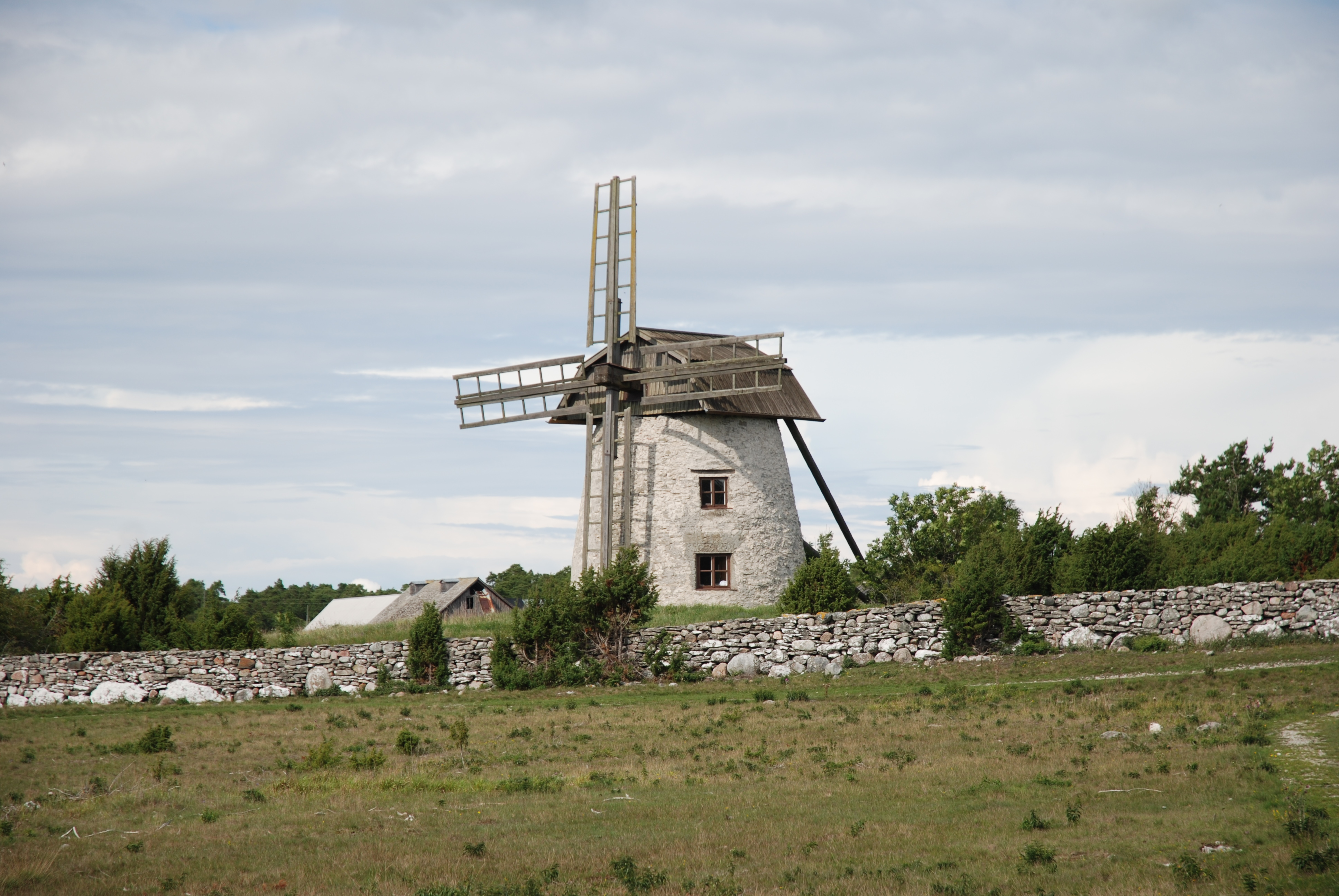 Södra kvarnen i Dämba på Fårö.